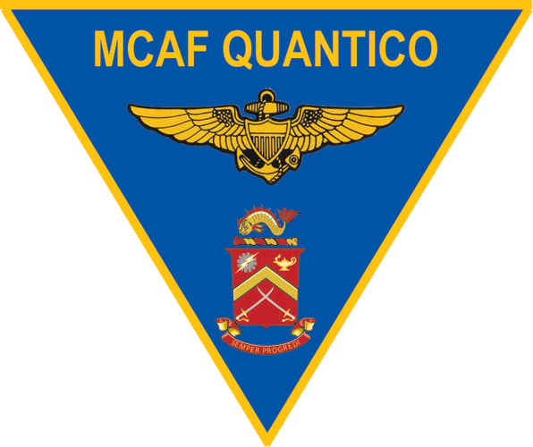 MCAF-Quantico emblem